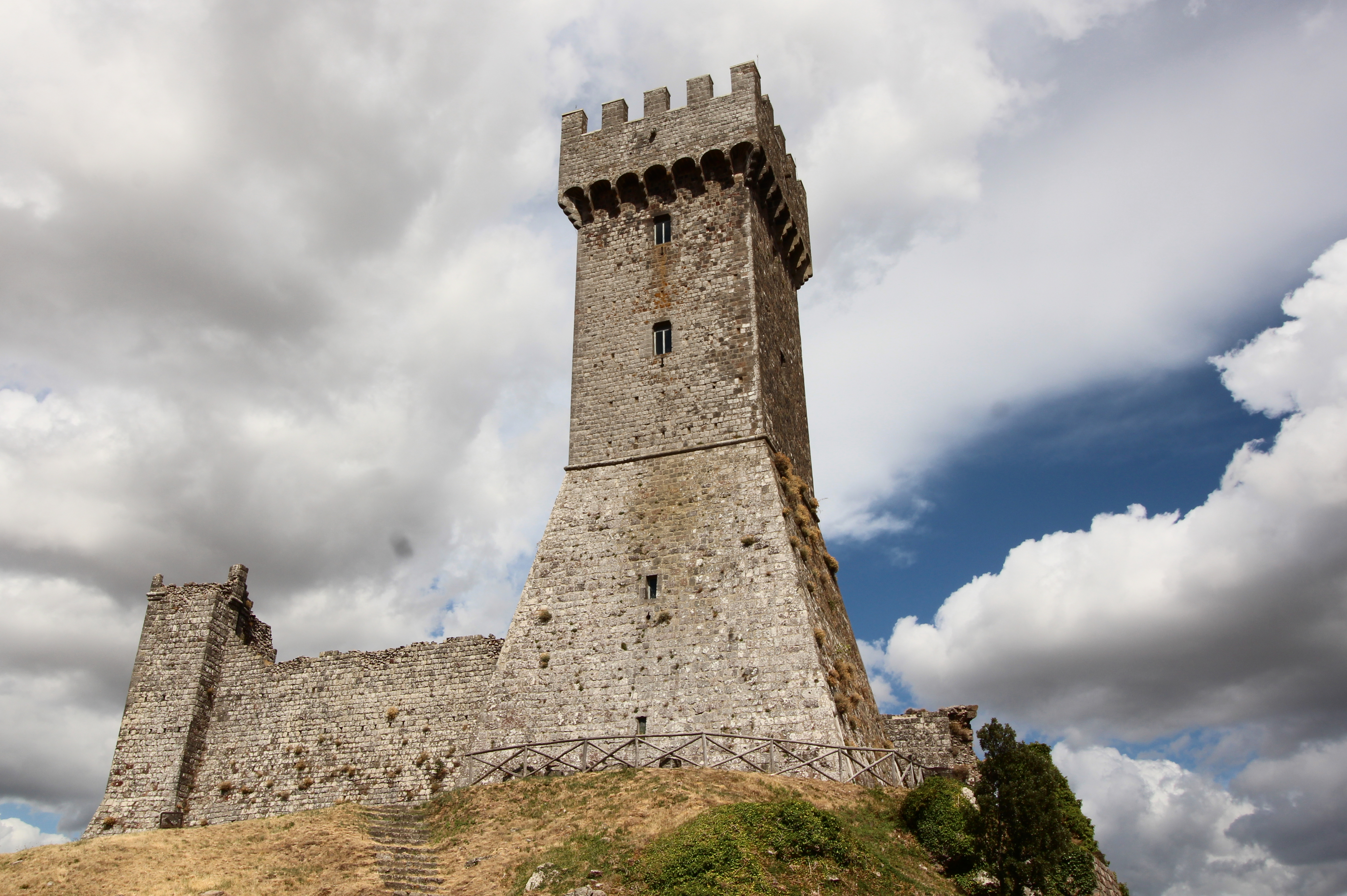 Castle Rocca di Radicofani, Radicofani, Val d'Orcia, Province of Siena, Tuscany, Italy